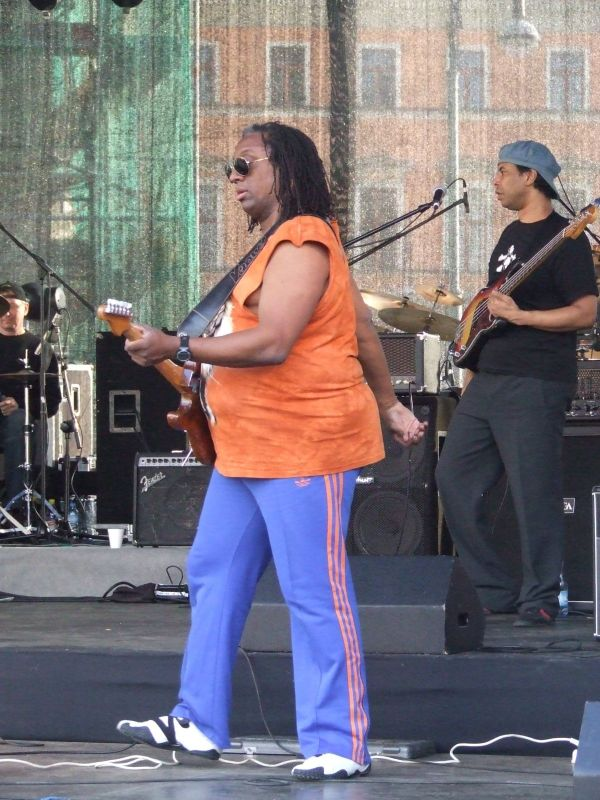 Hiram Bullock